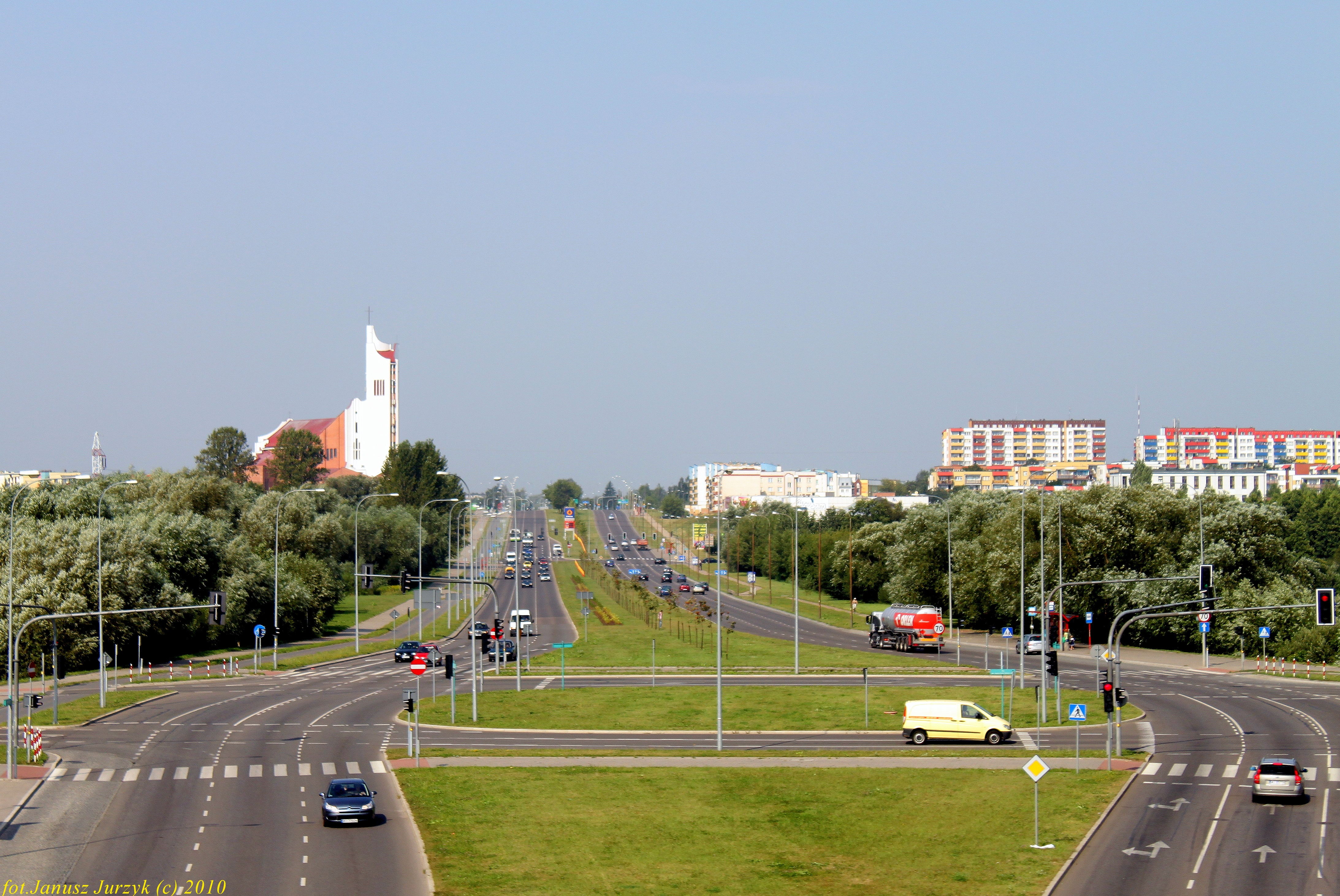 Białystok. Popiełuszki Street, Fieldorfa "Nila" Square